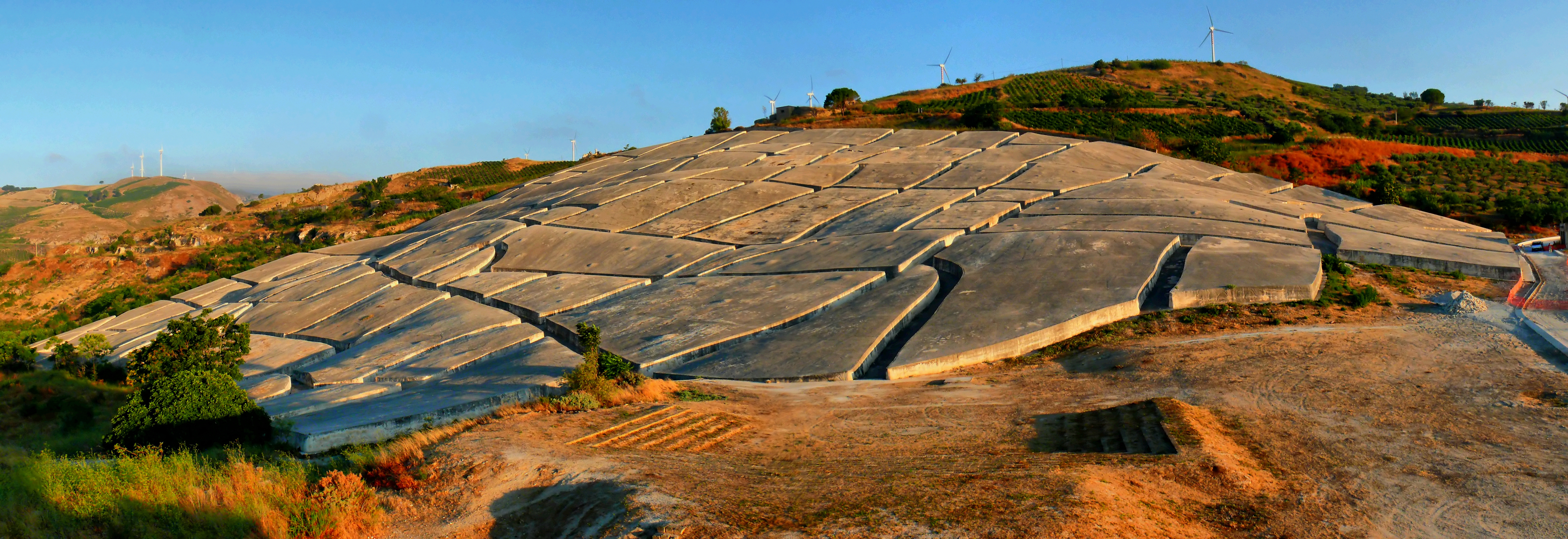 The "Cretto di Burri" of Gibellina, by Gabriel Valentini : general view